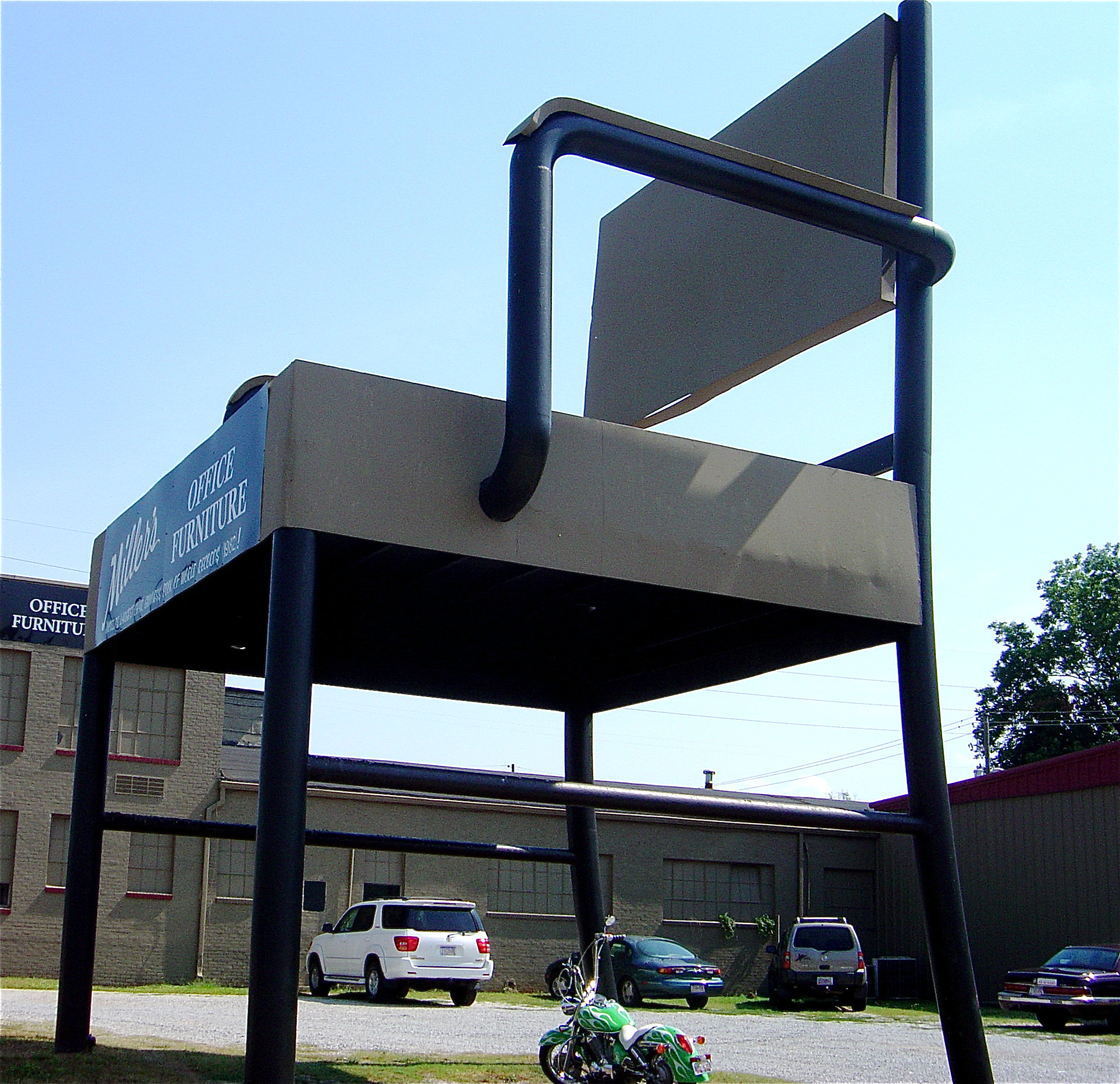 World's largest chair, Anniston, Alabama, United States.